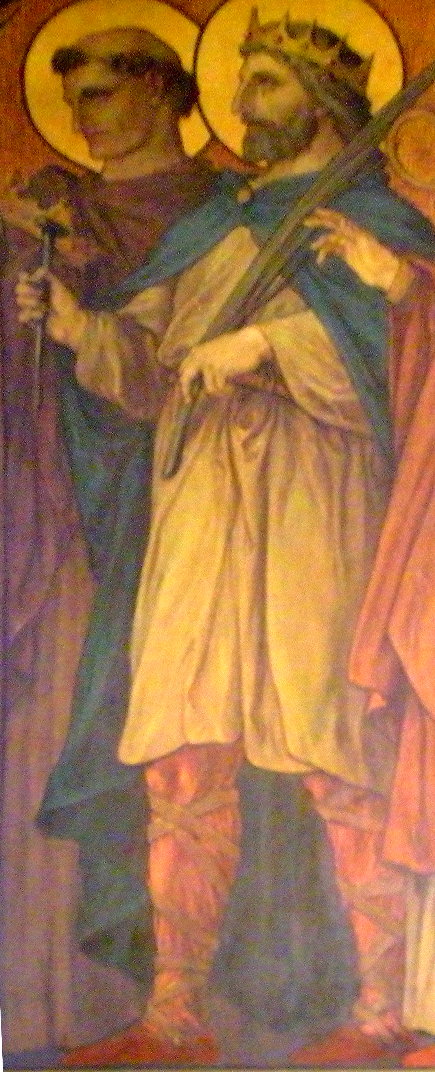 Crop from a fresco by Alphonse Le Henaff, painted in the Cathédrale Saint-Pierre de Rennes between 1871 and 1876, centered on the second king of Brittany, Salomon (Salaün)